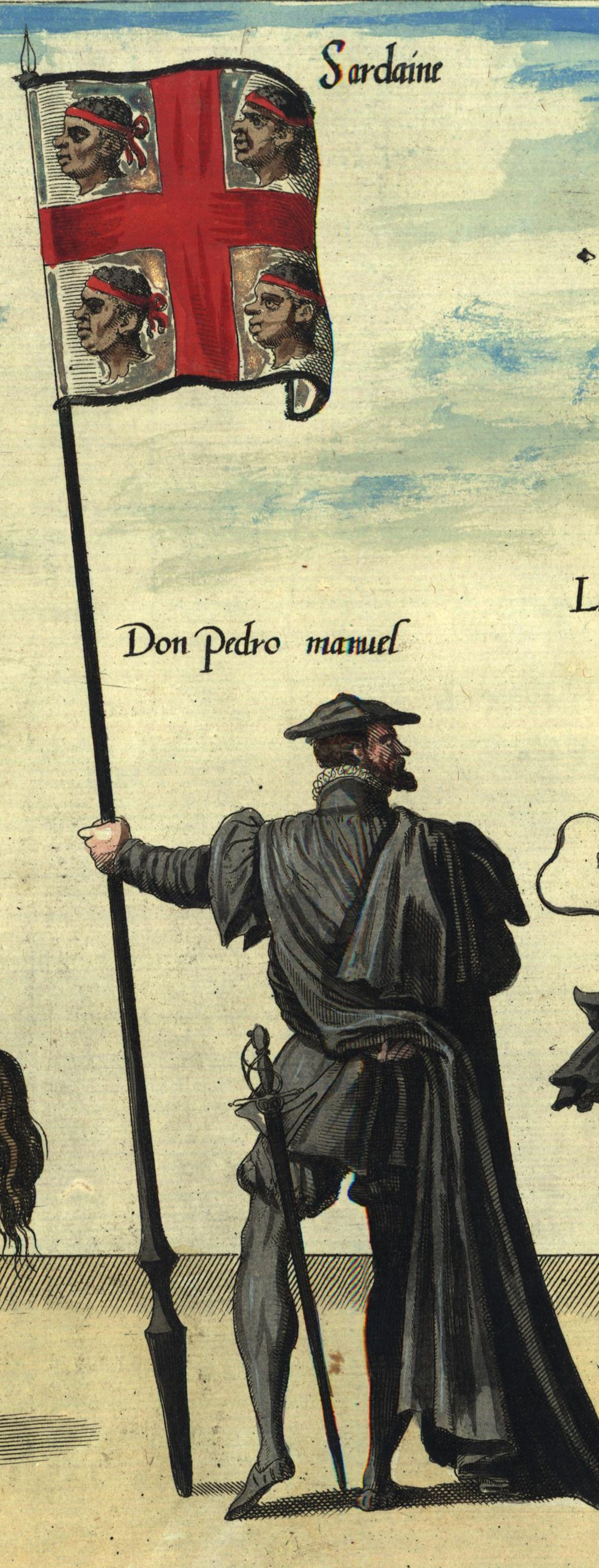 Flag of the Kingdom of Sardinia in 1568